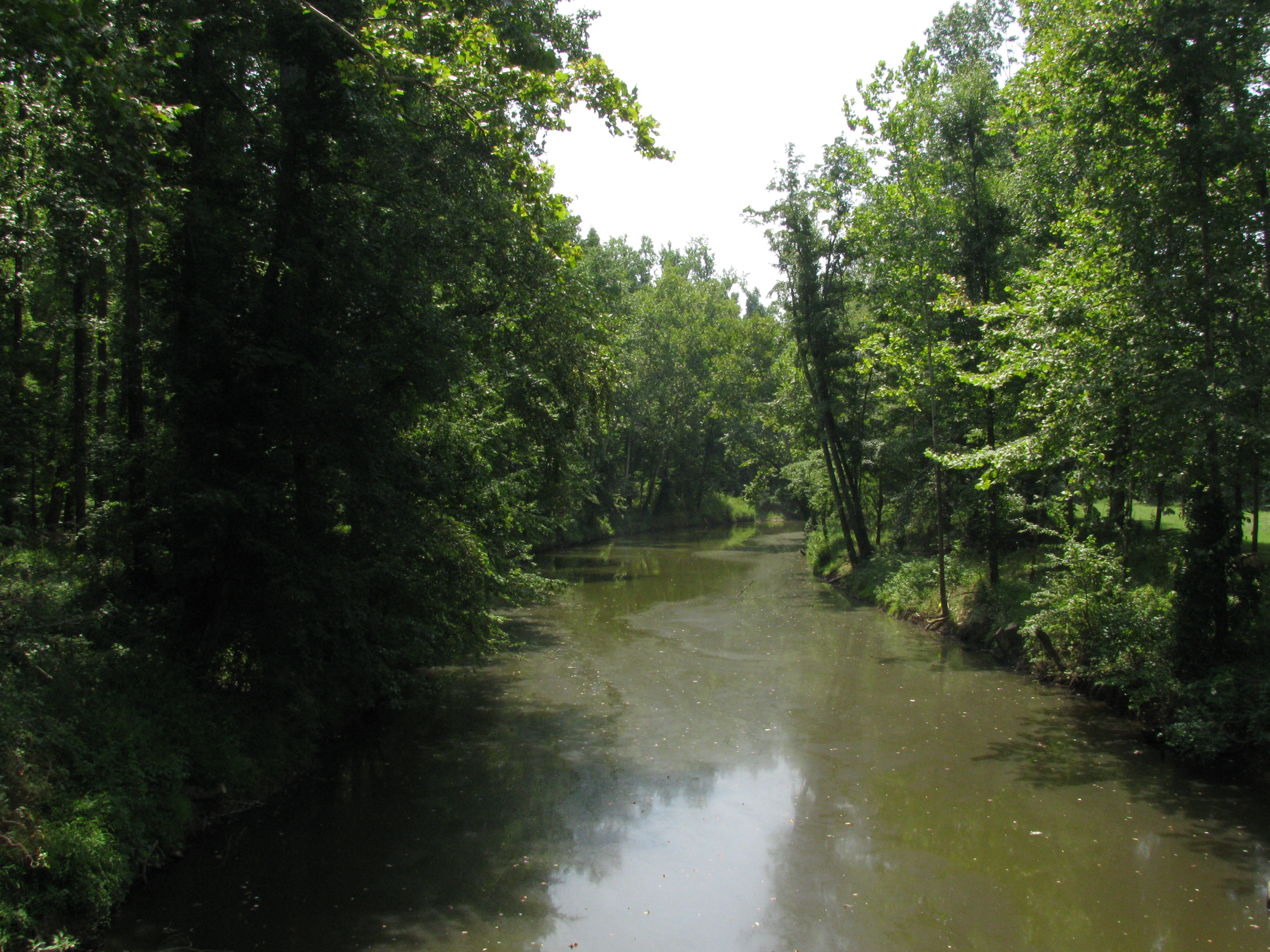 Tradewater River near Route 109 in Dawson Springs, KY